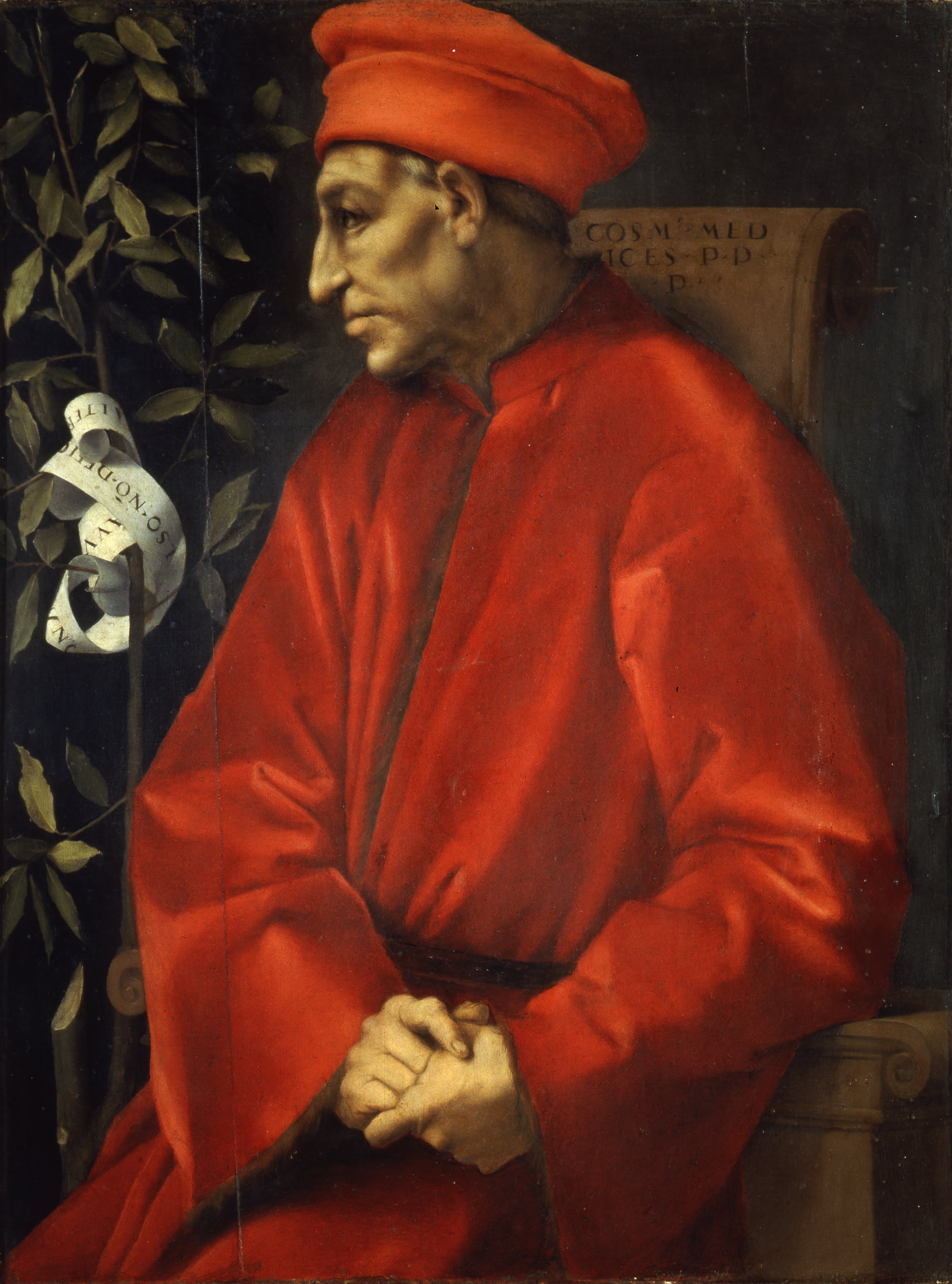 The laurel branch is a traditional Medici emblem.